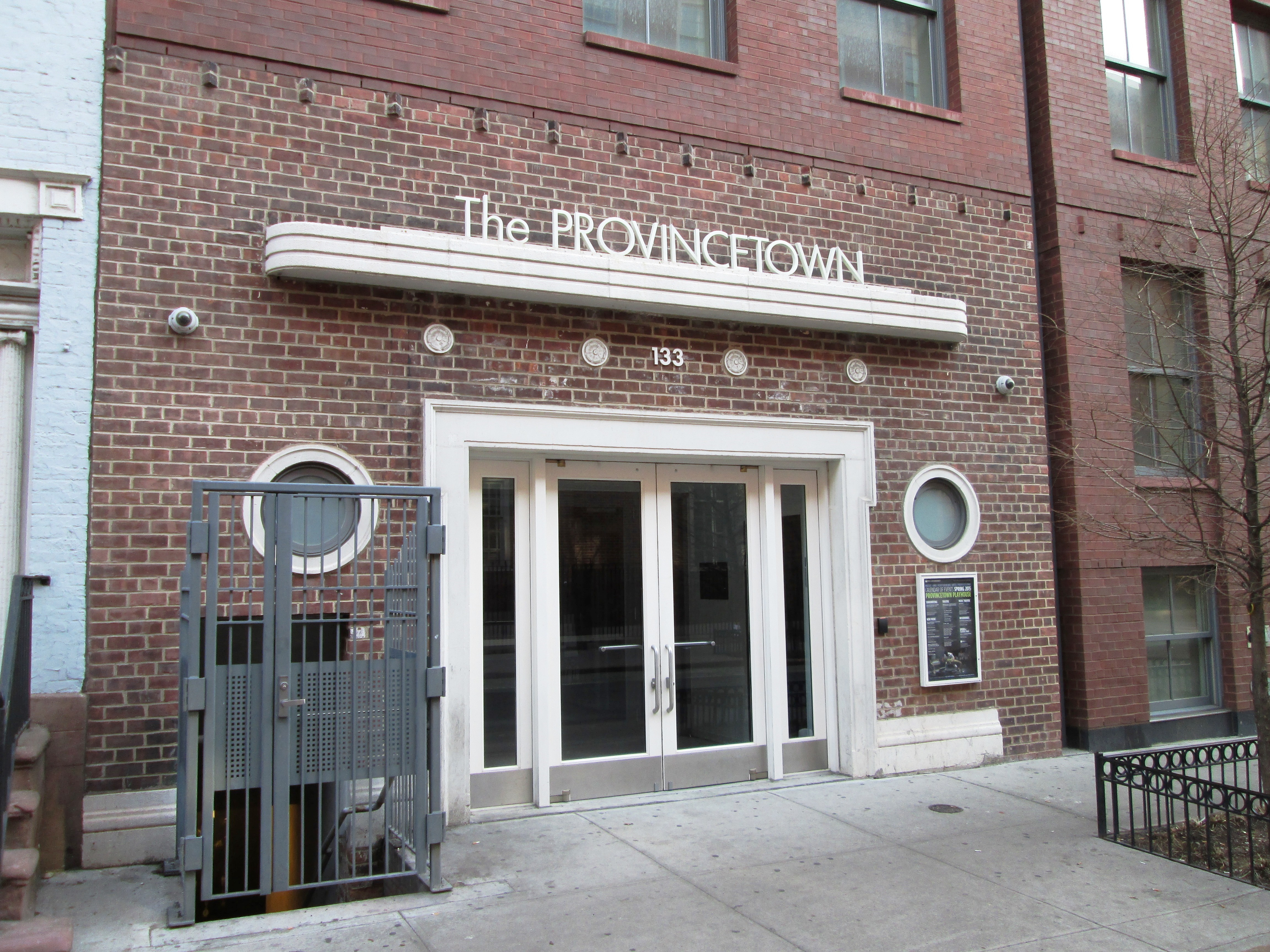 The Provincetown Playhouse is an historic theatre at 133 MacDougal Street between West 3rd and West 4th Streets in the Greenwich Villag neighhborhood of Manhattan, New York City. It is named for the Provincetown Players - originally Eugene O’Neill, Edna St. Vincent Millay and Djuna Barnes - who converted the former bottling plant into a theater in 1918, which was extensively renovated in 1940. The group's original theatre, opened in 1916, was at 139 MacDougal Street. There has been controversy over whether the site, which is now owned by New York University, deserves to have landmark status.